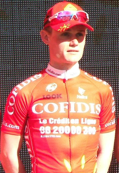 Named cyclist at the en:2009 Tour Down Under team presentation